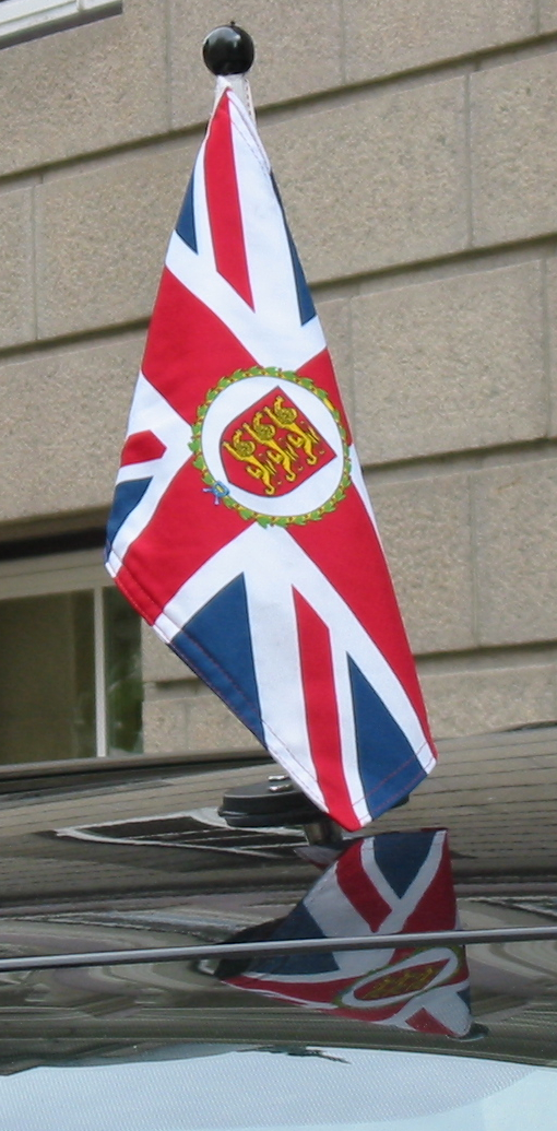 Lieutenant Governor of Jersey's car with standard, in the Royal Square, Saint Helier, Jersey, 16 July 2009